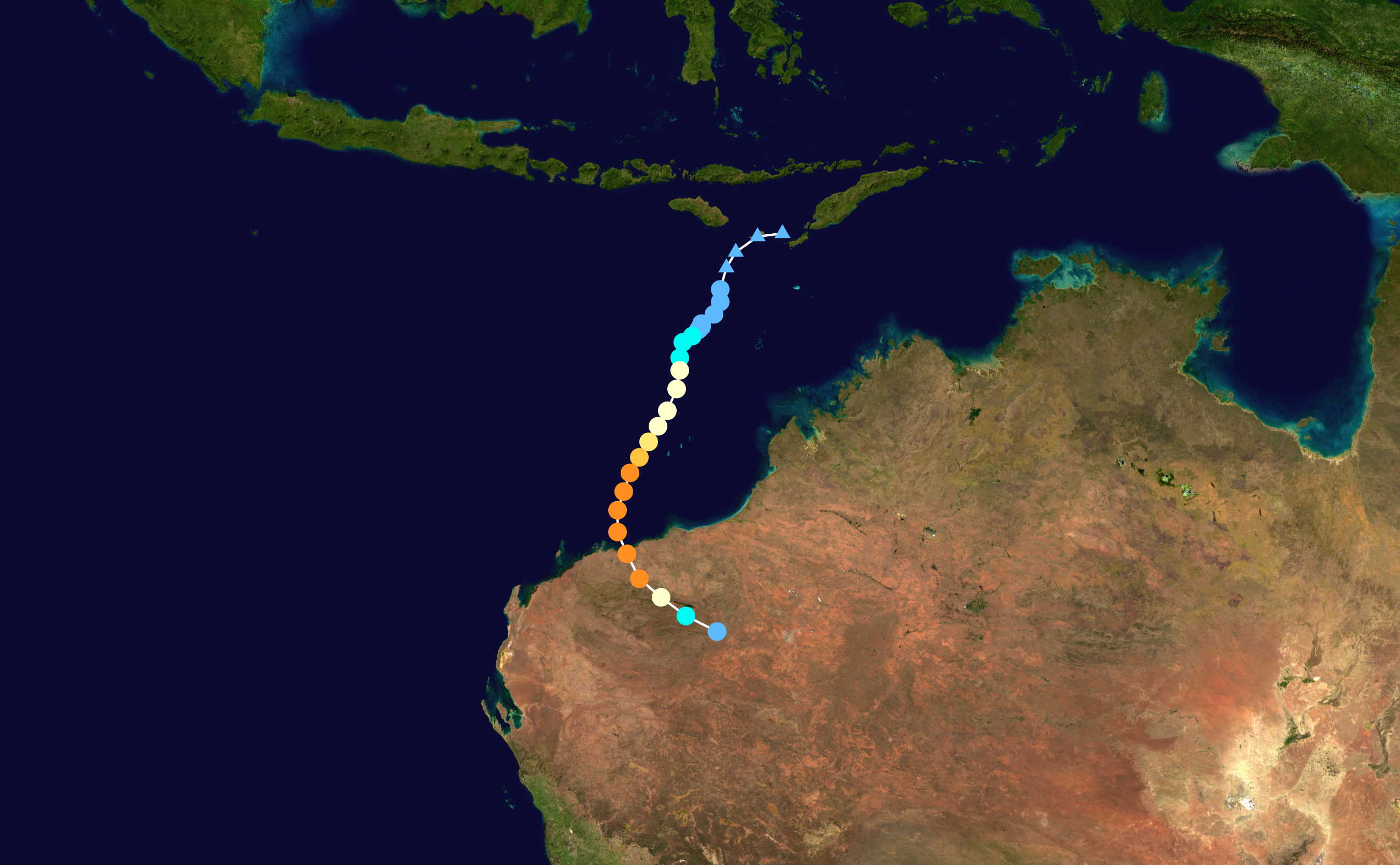 Track map of Severe Tropical Cyclone John of the 1999-00 Australian region cyclone season. The points show the location of the storm at 6-hour intervals. The colour represents the storm's maximum sustained wind speeds as classified in the Saffir–Simpson scale (see below), and the shape of the data points represent the nature of the storm, according to the legend below. Saffir–Simpson scale Tropical depression≤38 mph≤62 km/h Category 3111–129 mph178–208 km/h Tropical storm39–73 mph63–118 km/h Category 4130–156 mph209–251 km/h Category 174–95 mph119–153 km/h Category 5≥157 mph≥252 km/h Category 296–110 mph154–177 km/h Unknown Storm typeTropical cycloneSubtropical cycloneExtratropical cyclone / Remnant low / Tropical disturbance